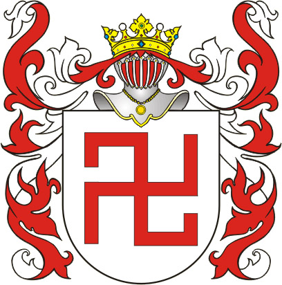 Boreyko Clan Some (or all) of the elements of this image were originally created by Tadeusz Gajl, and were published in: Herbarz polski: od średniowiecza do XX wieku, L&L, Gdańsk, 2007, ISBN 978-83-60597-10-1 Permission is granted under GNU Free Documentation License / Creative Commons ShareAlike License 3.0 to create vector versions of all Coats of arms of polish nobility from the book mentioned in the header. This work is free and may be used by anyone for any purpose. If you wish to use this content, you do not need to request permission as long as you follow any licensing requirements mentioned on this page.